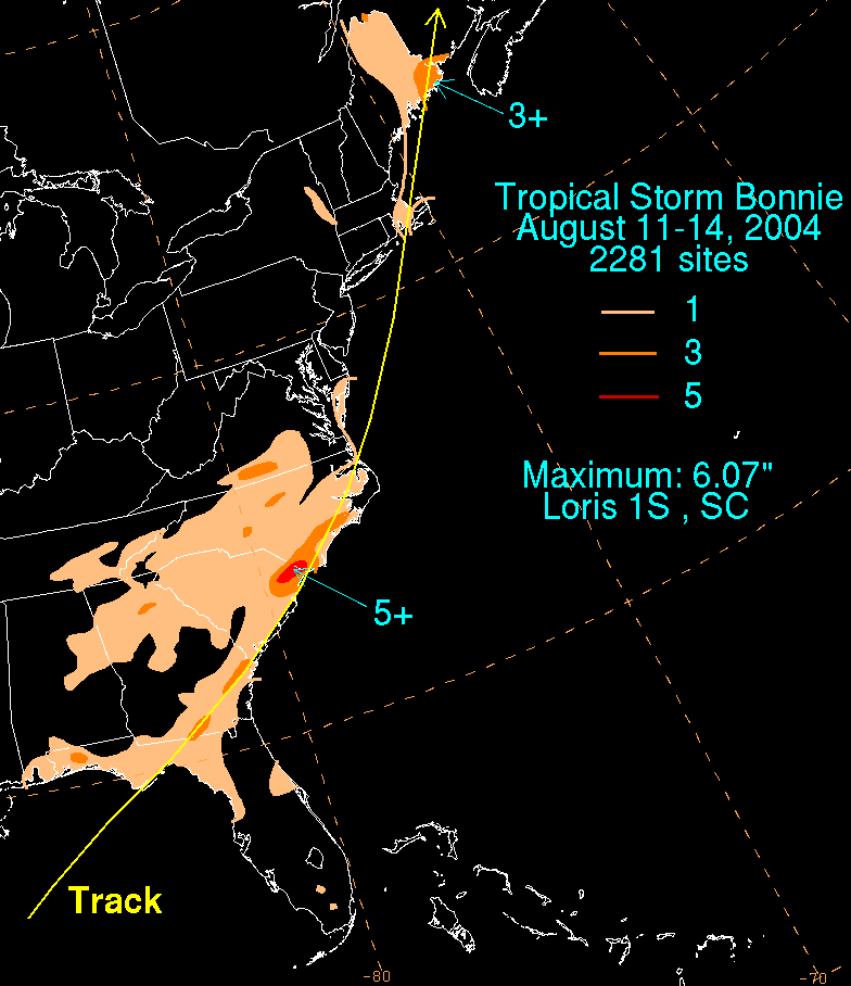 Storm total rainfall map of Tropical Storm Bonnie during August 2004.